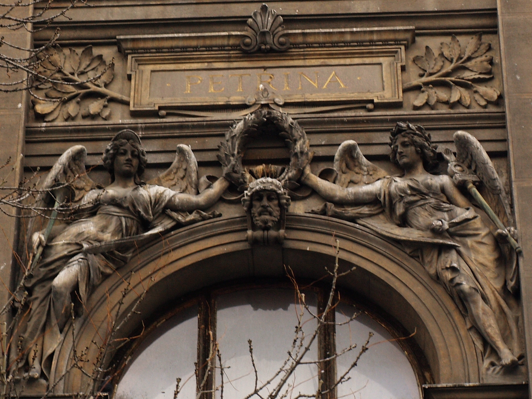 Family name of Czech physicist and mathematician František Adam Petřina (1799—1855) inscribed in the facade of National Museum (Prague)